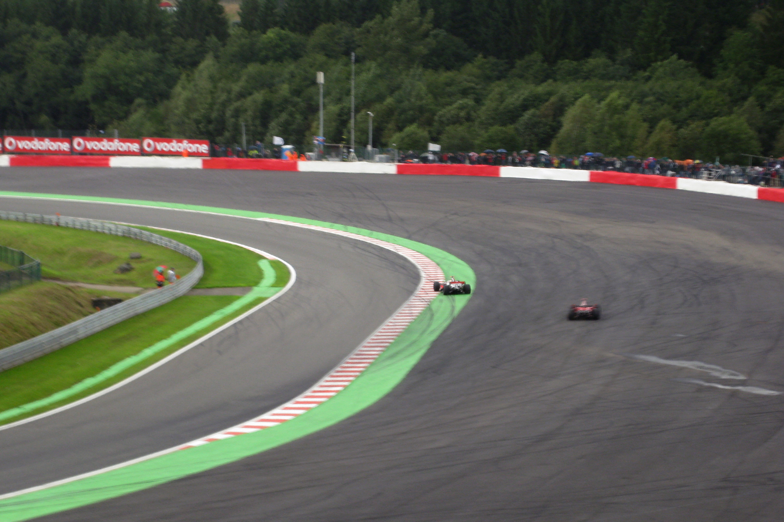 Lewis Hamilton and Kimi Räikkönen battle for 1st place on the closing stage of the Formula One Belgian Grand Prix 2008. Both run off at Pouhon due to rain.